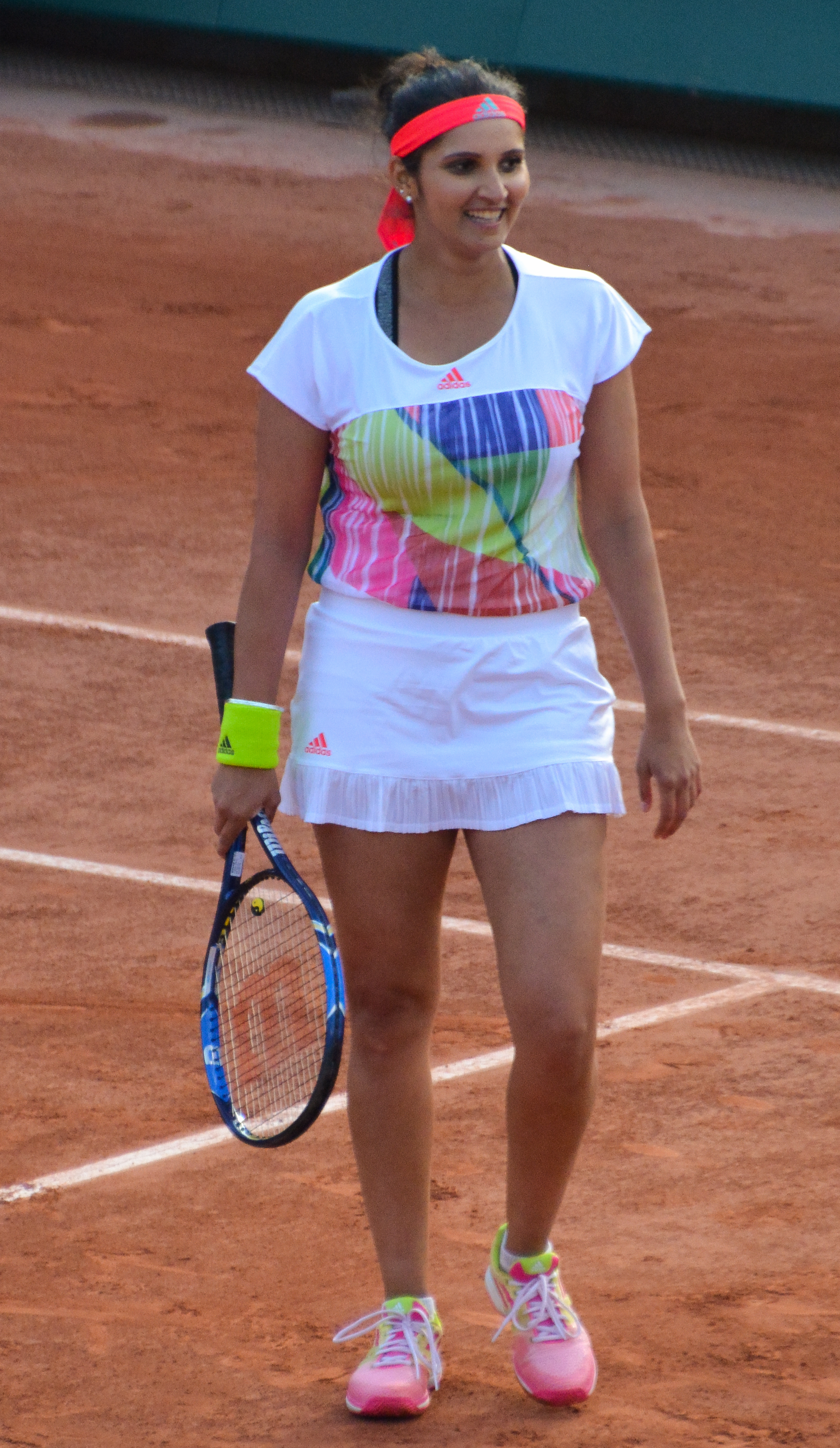 Day 6 of Roland Garros 2016